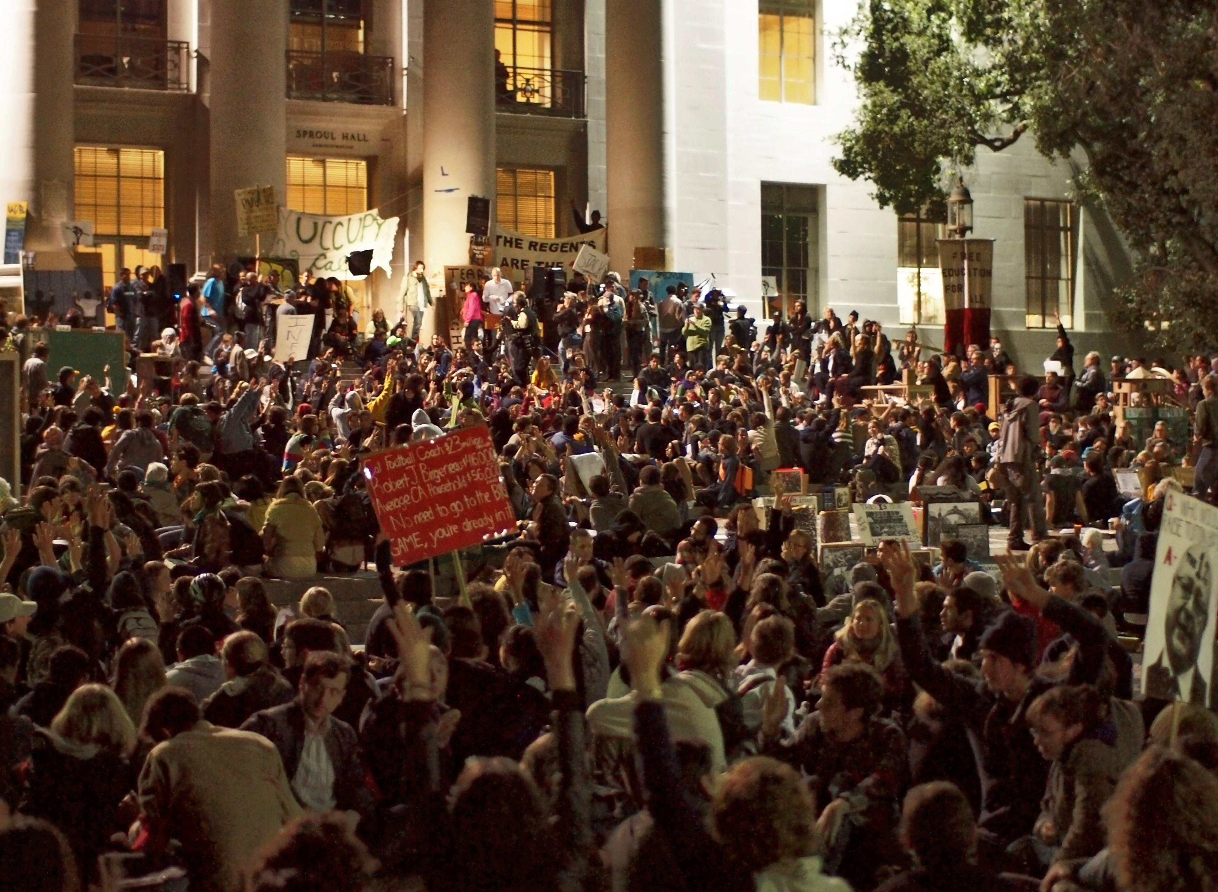 The OccupyCal General Assembly approves of... something. November 15 2011. Sigma 30mm f/1.4 @ f/1.4, ISO 1600 (barf).